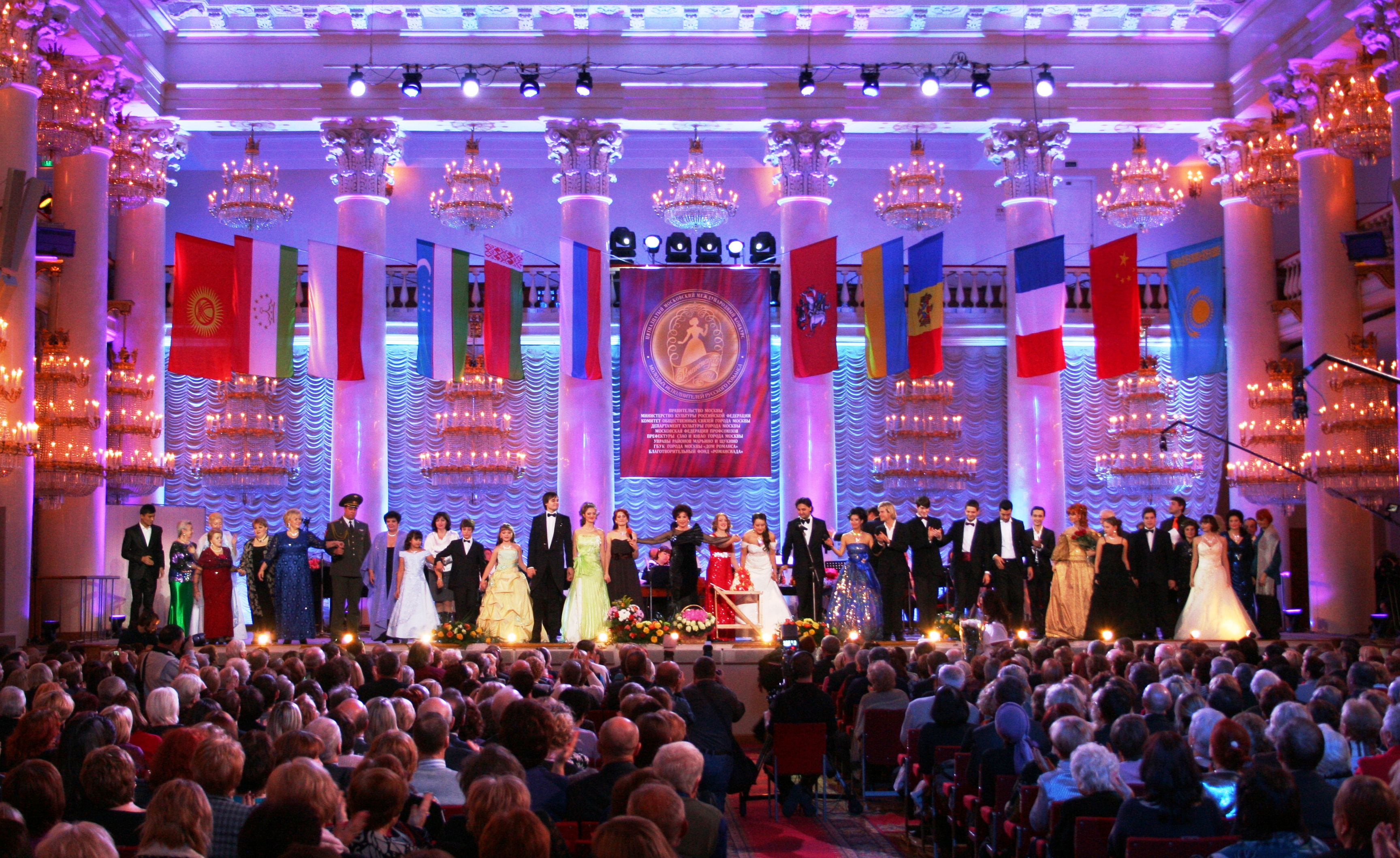 Romansiada